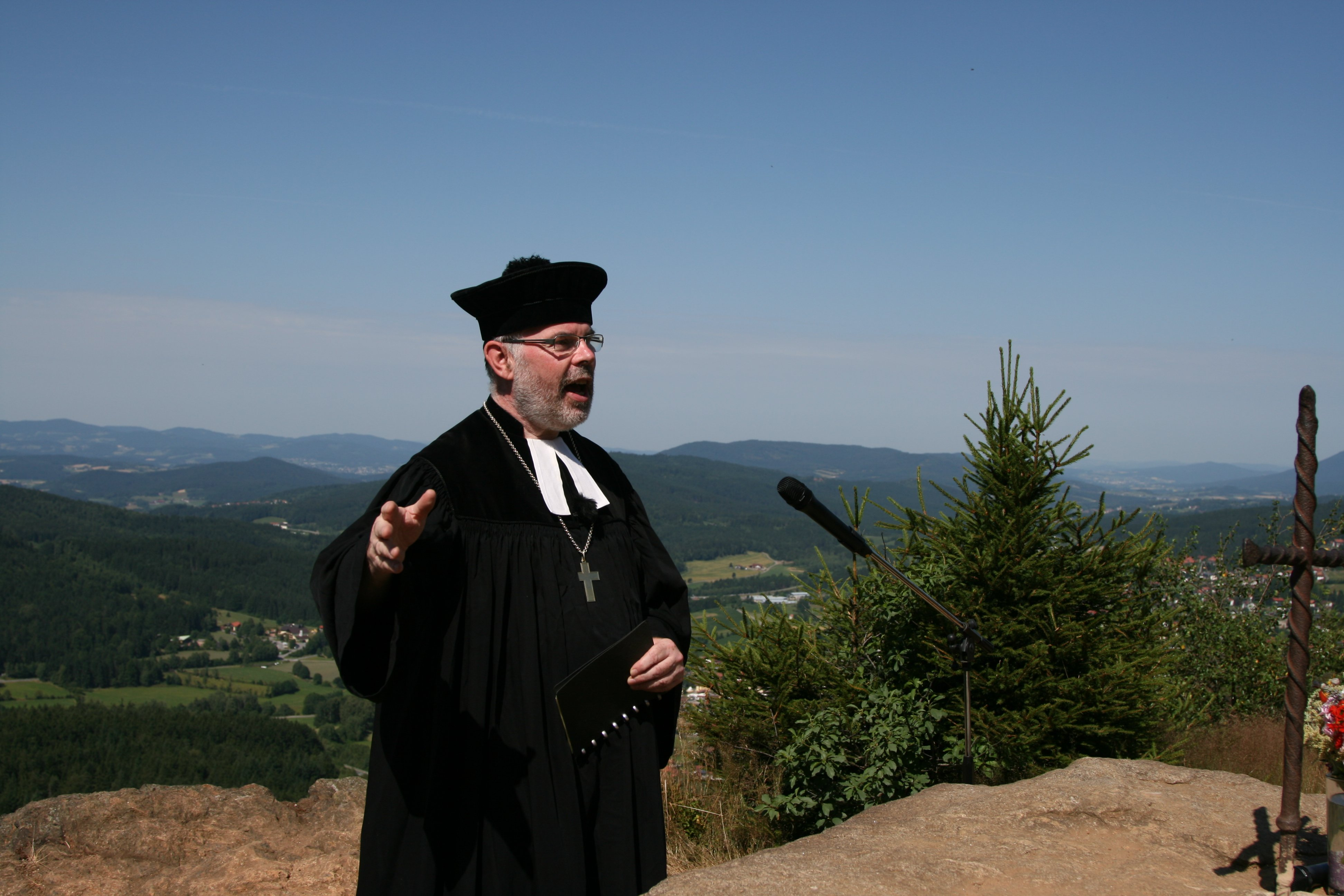 Dr. Hans-Martin Weiss preaching at a service on the Silberberg near Bodenmais.